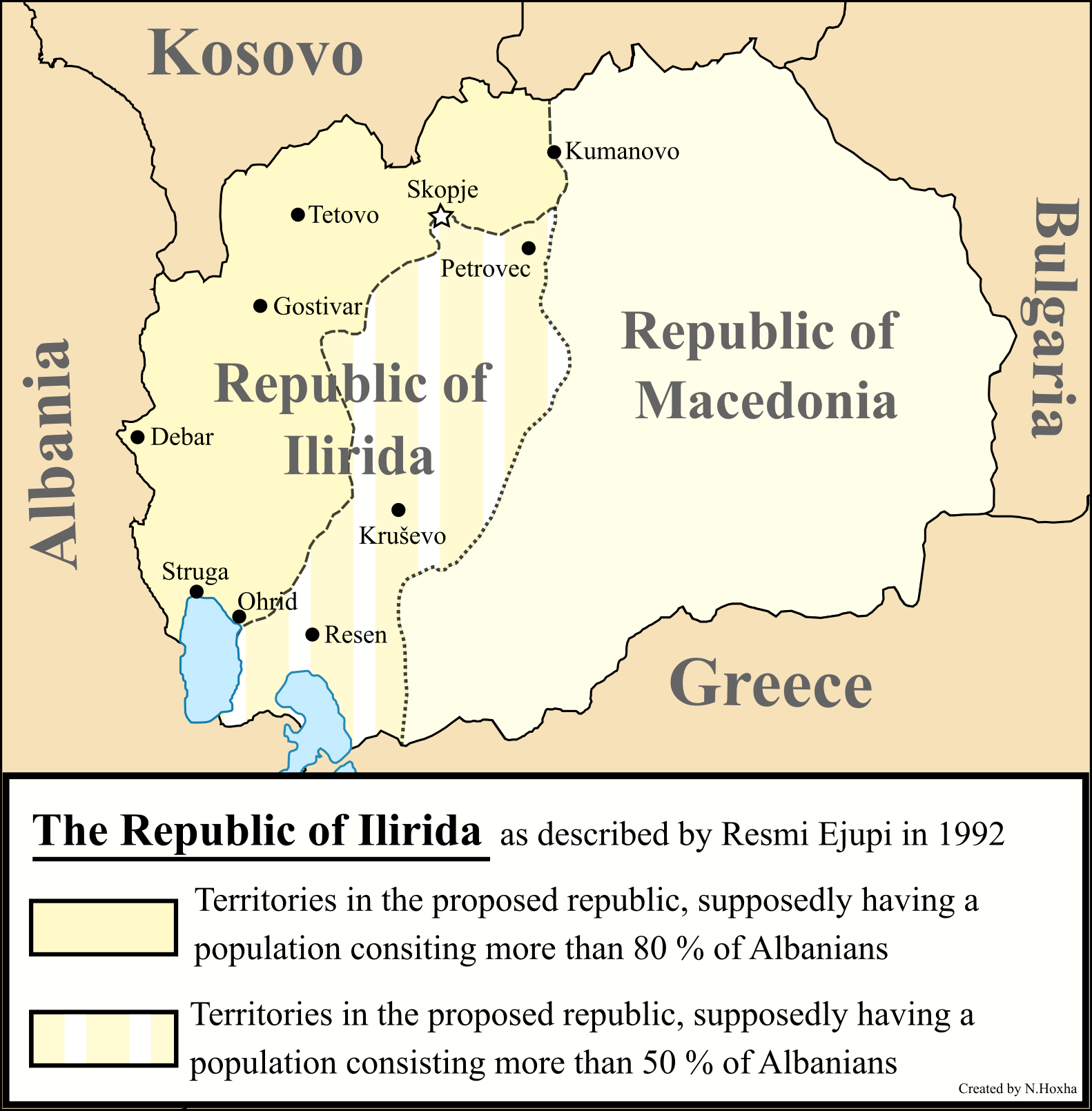 The map portraits the proposed Republic of Ilirida, as described by Resmi Ejupi.